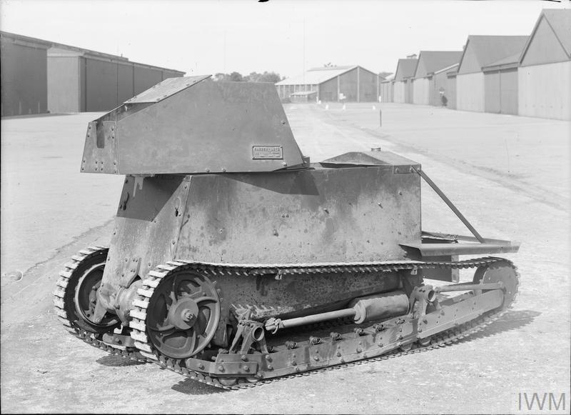 Carden-Loyd Mk I Tankette